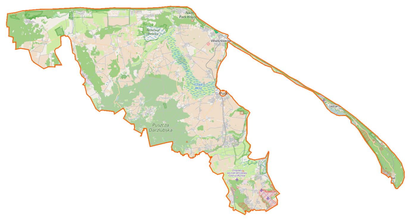 Map of Powiat pucki, Poland This map of Powiat pucki was created from OpenStreetMap project data, collected by the community. This map may be incomplete, and may contain errors. Don't rely solely on it for navigation.